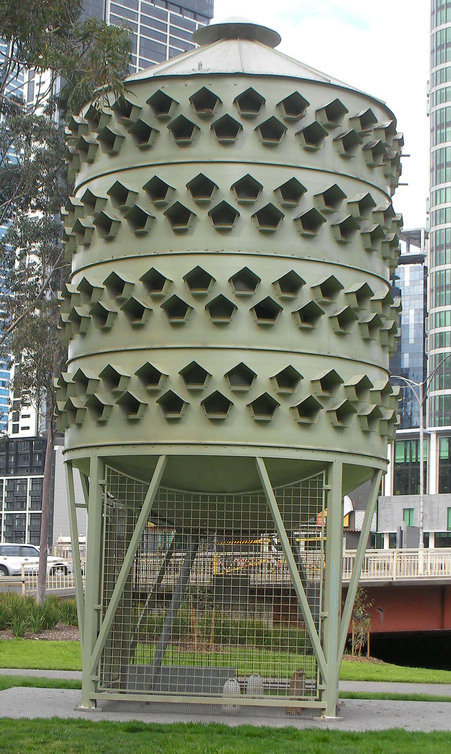 Pigeon Control Trap. Northbank of Yarra RIver, Melbourne.